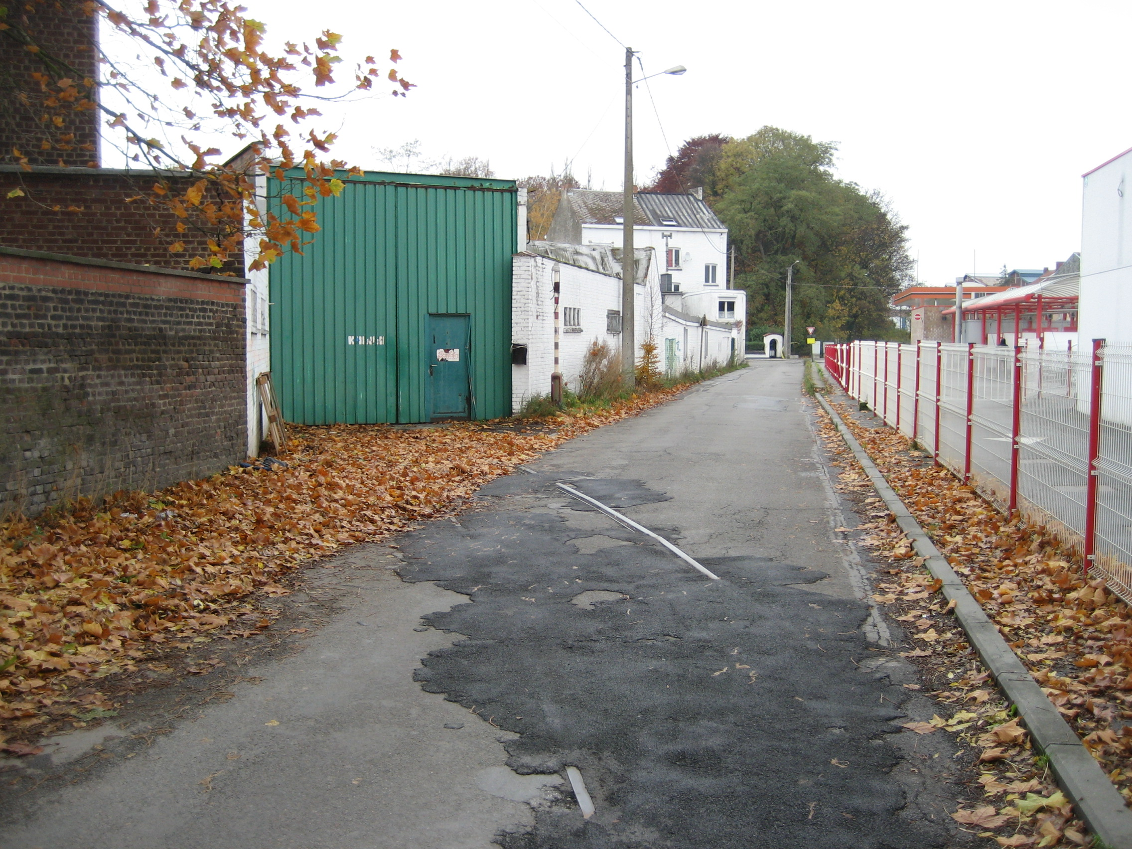 Industrial junction in Gosselies, Rue Camille Auquit.